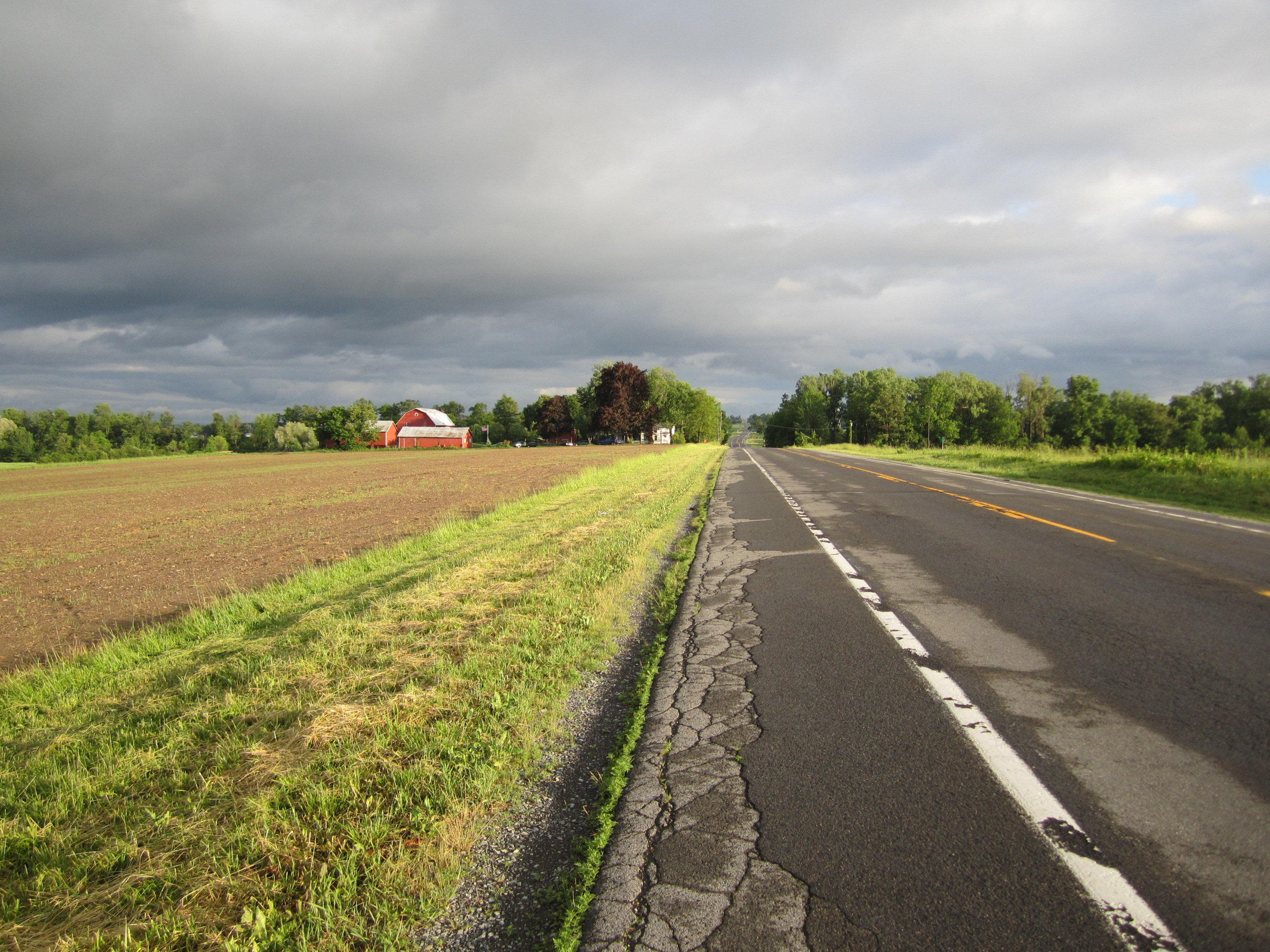 Late afternoon view down a rural route in spring after a rain in Upstate New York.